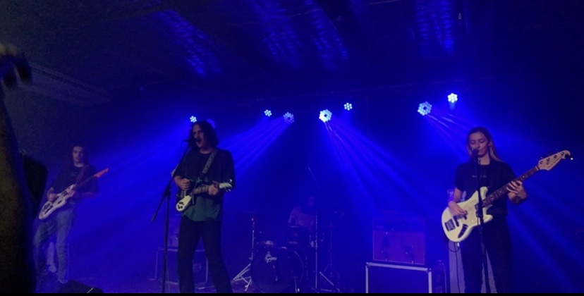 Spacey Jane live at Miama Marketta in November, 2019